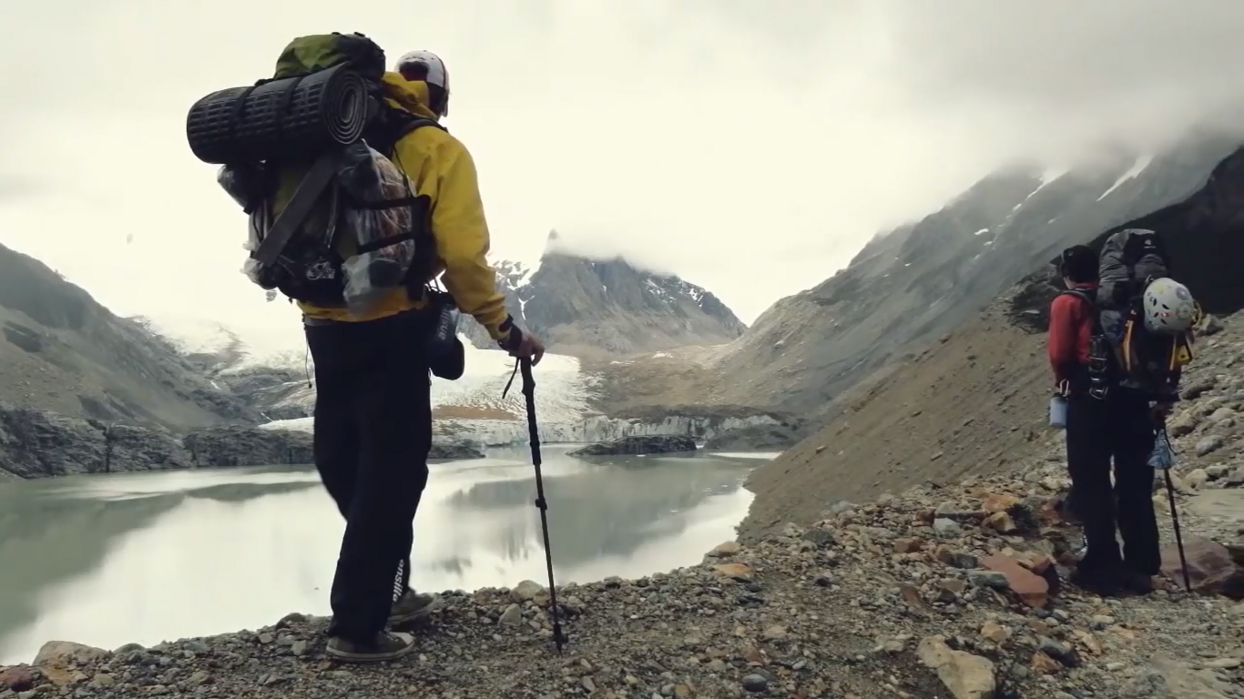 Trekking in Chaltén - Argentina